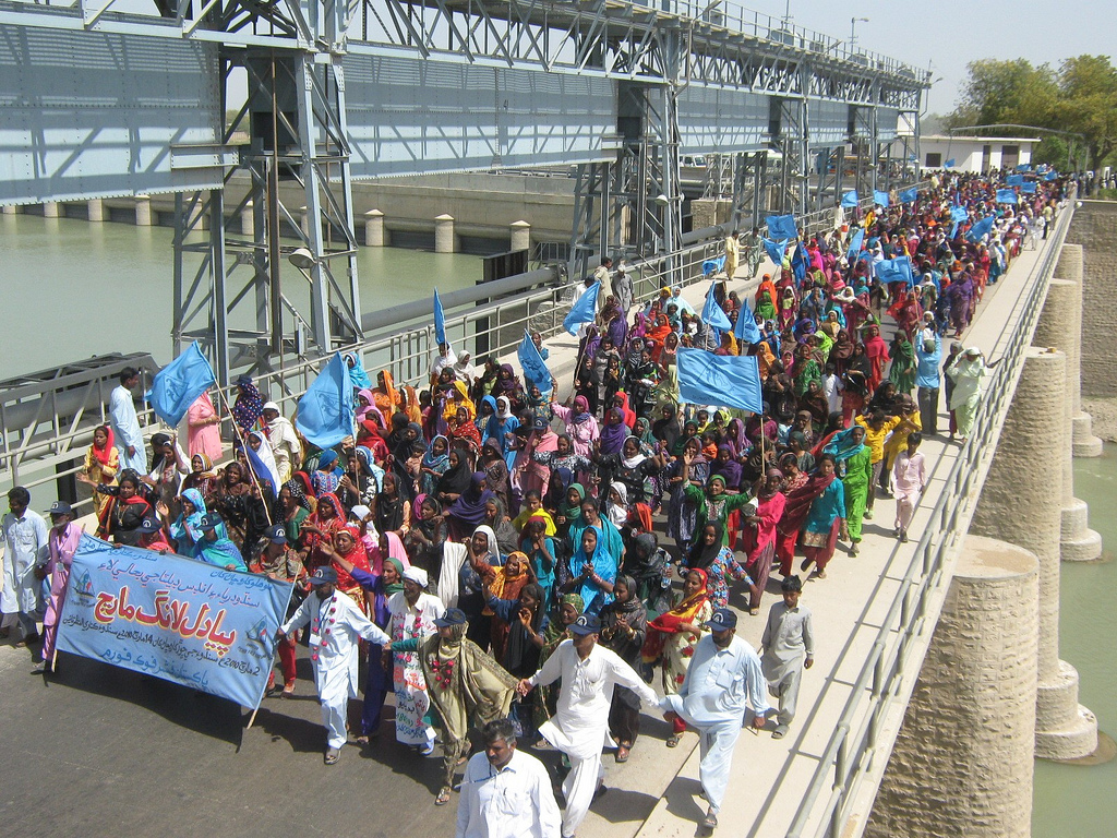 Citizens in Pakistan participate in a long march from March 2nd to March 14th, 2010 to support the rehabilitation and restoration of the Indus River Delta. Photo courtesy of Pakistan Fisherfolk Forum.